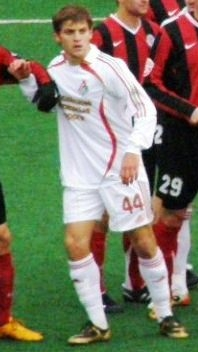 Ruslan Kambolov in action for FC Lokomotiv Moscow